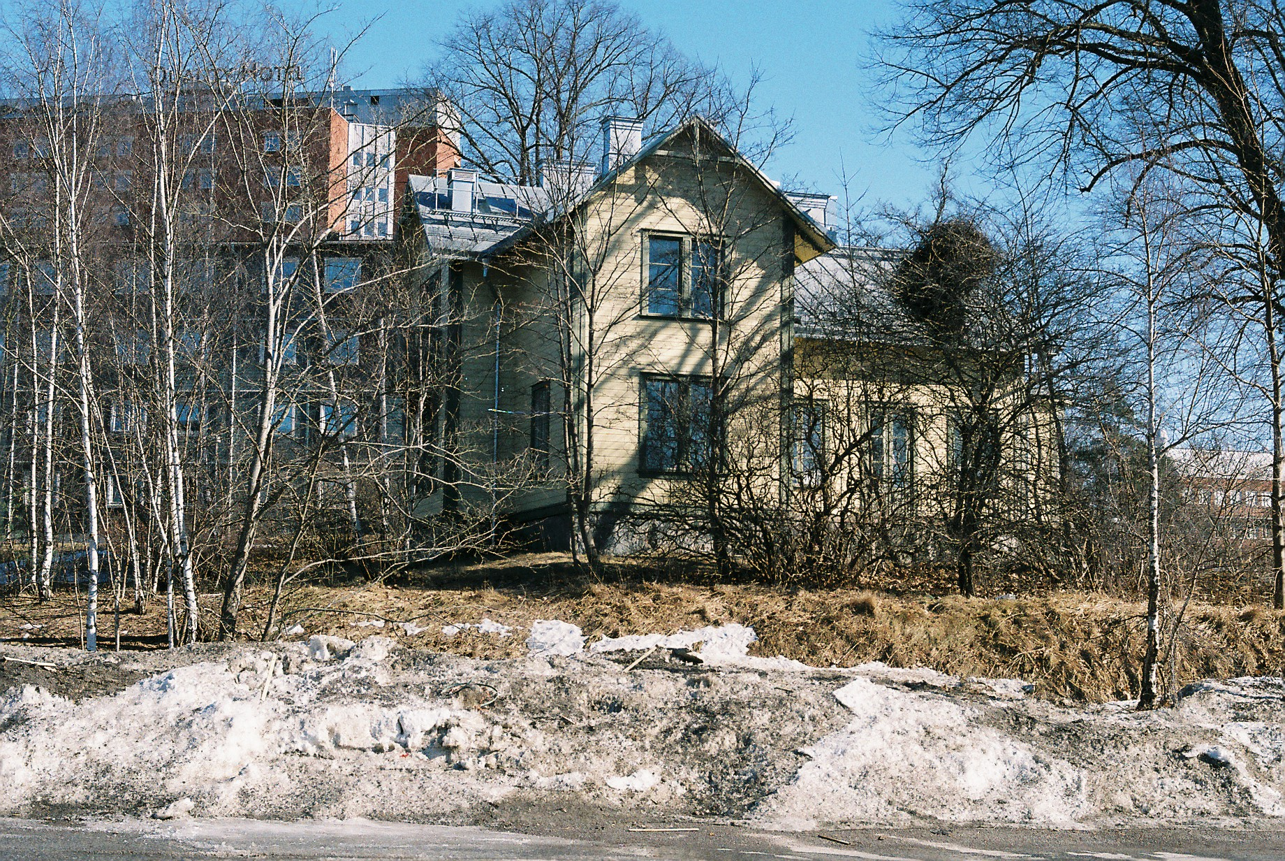 Fanny udde